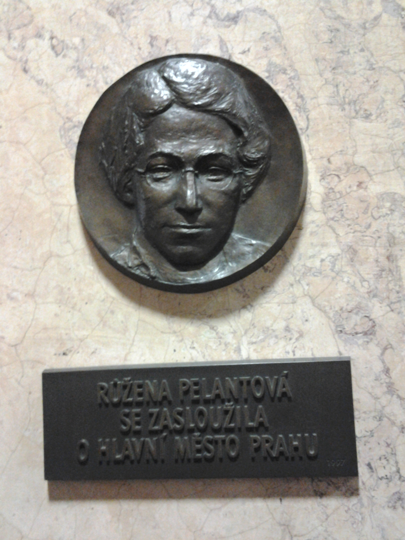 Portrait medallion of Czech politician Mrs. Růžena Pelantová (* 1886 – 1959) created by the academic sculptor Mrs. Jaroslava Lukešová (* 1930 - 2007). Medaillon is placed in the public space (the staircase from the ground floor to the first floor) at the New Town Hall in Prague on Marian square.